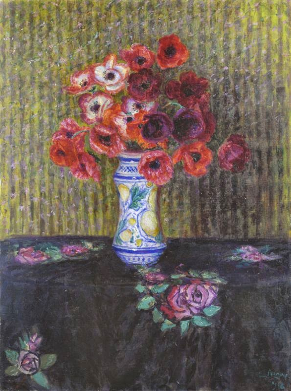 Flowers